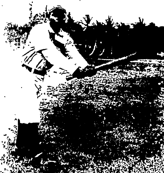 Frank Duncan, playing for the Leland Giants